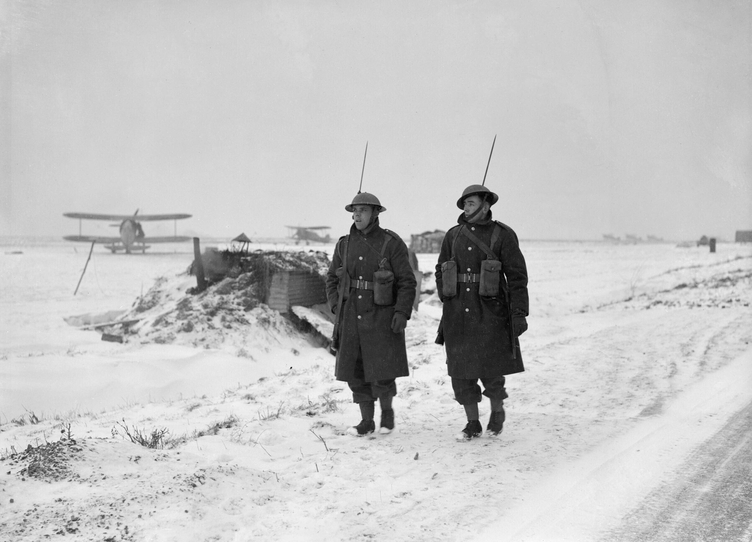 The British Army in France 1940 Two sentries on patrol in the snow at an RAF airfield in France, 30 January 1940. Gladiator aircraft can be seen in the background.